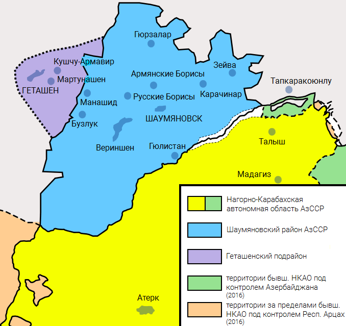 Shaumyan and Getashen district